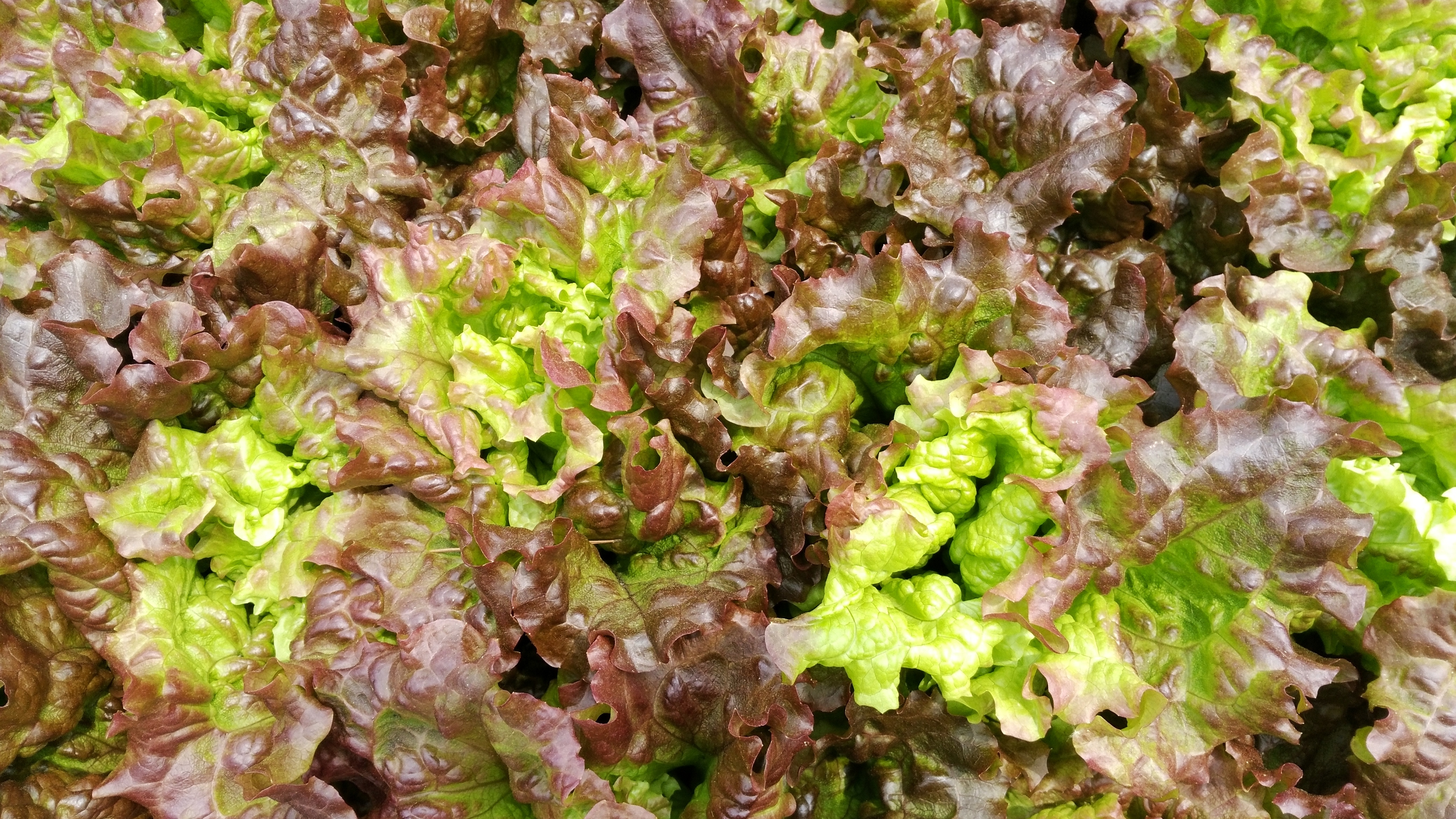 Looseleaf lettuce (Lactuca sativa L.)